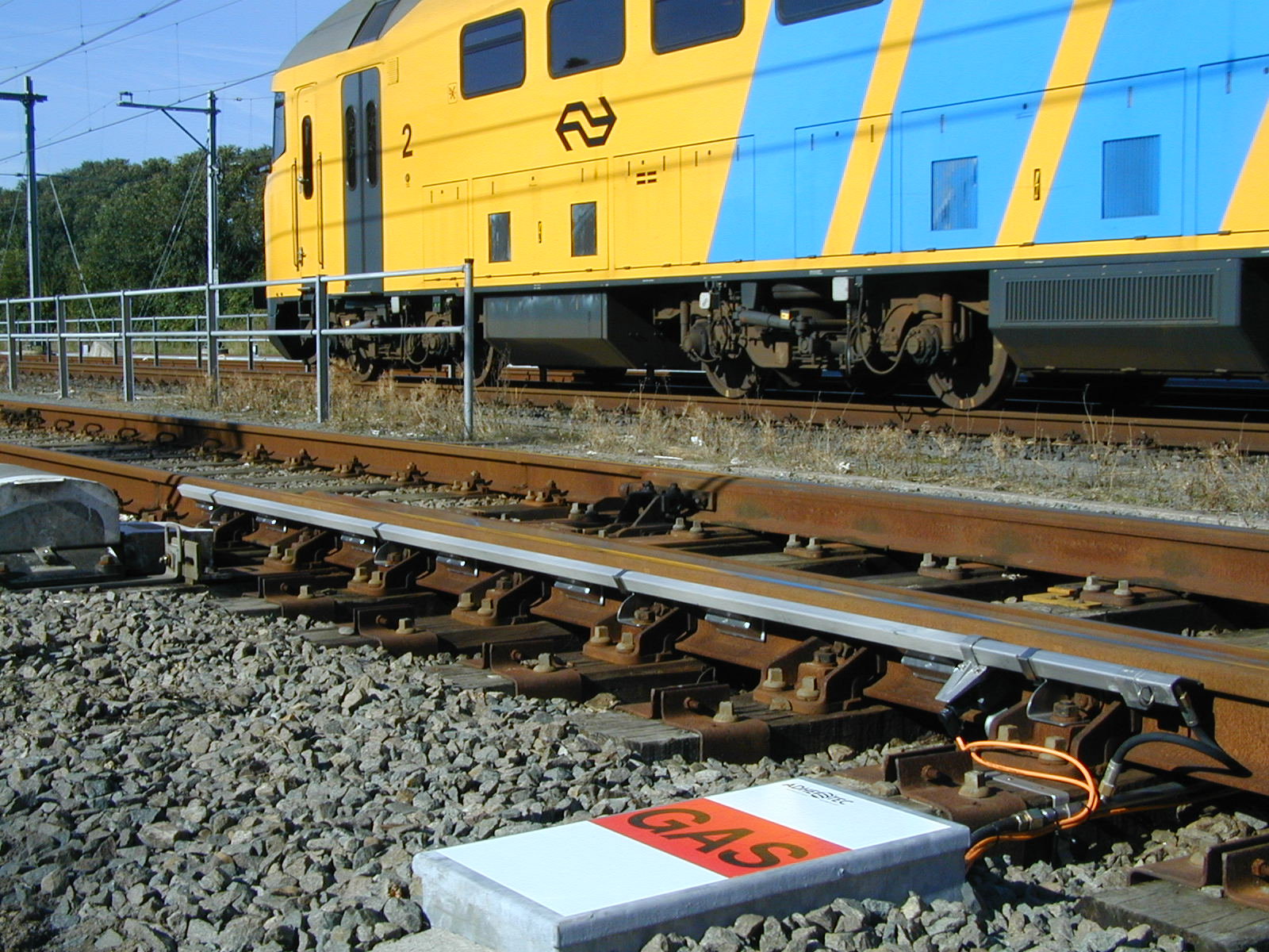 Point heating.